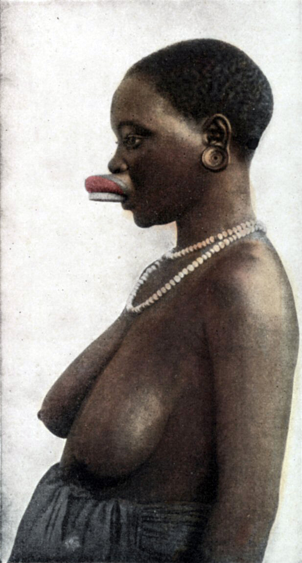 Photo of a woman